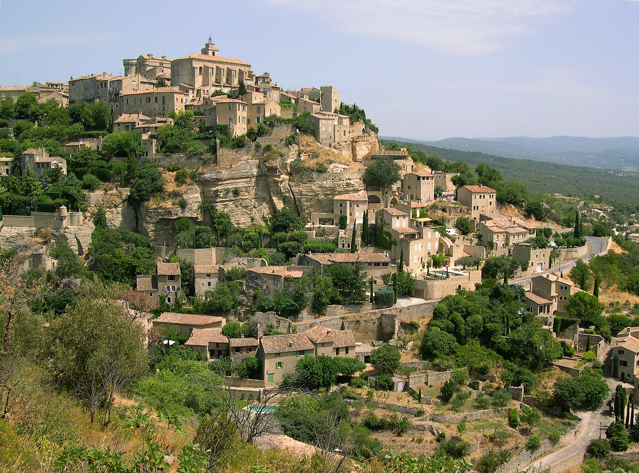 village of Gordes in Vaucluse (France).